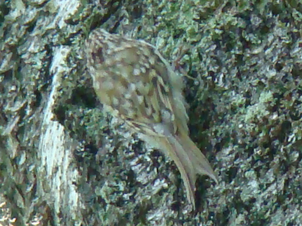 Photo of the Common Treecreeper (Certhia familiaris) in Plunge, Plateliai, Lithuania.